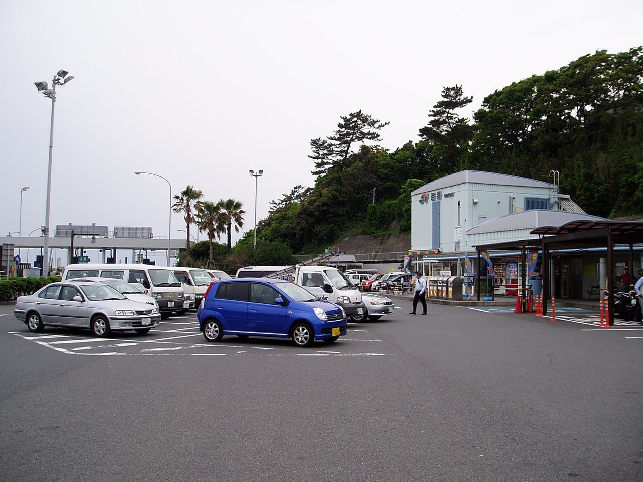 Seisho Bypass road Seisho Perking Area (for Tokyo)